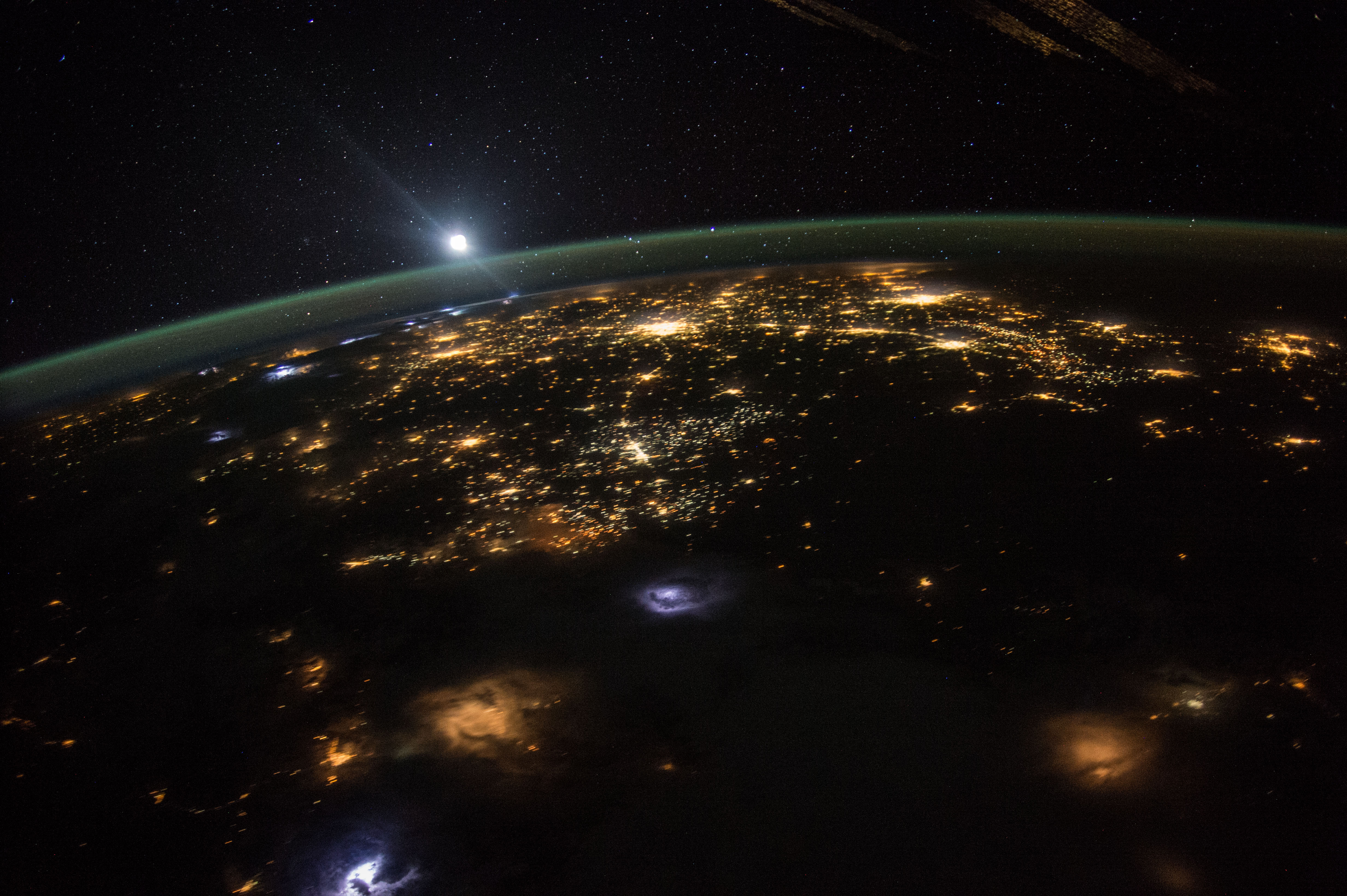 NASA astronaut Scott Kelly took this photograph of a moonrise over the western united states.